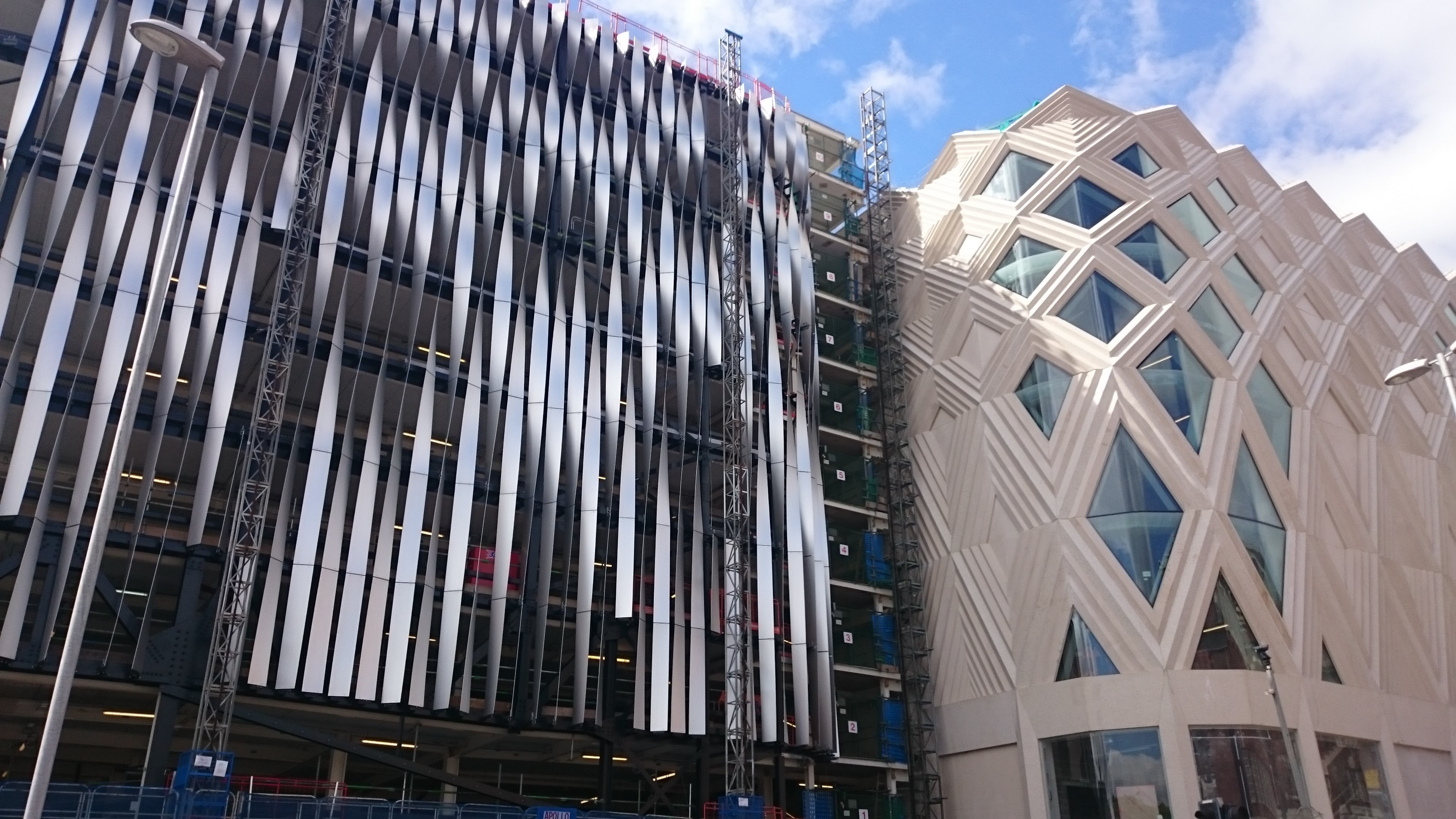 View of Victoria Gate John Lewis in Leeds from Eastgate, with adjoining car park.